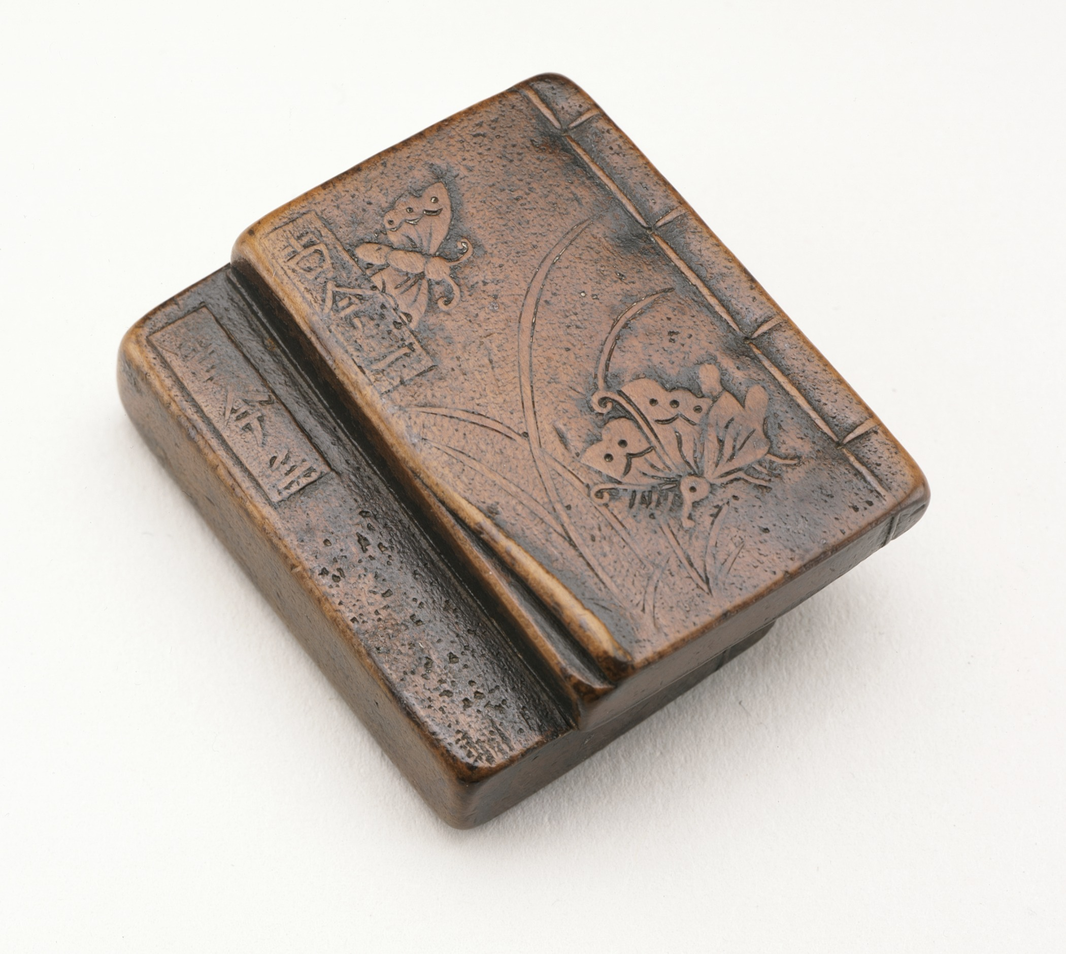 Japan, 18th century Costumes; Accessories A wooden netsuke carved into a shape of two volumes of "Kokin-shu", or medeaval poetry anthology, with titles on book covers; two heads of butterflies, of which one in the shape of a crest of butterfly (right)on the cover. Raymond and Frances Bushell Collection (M.91.250.332) Japanese Art